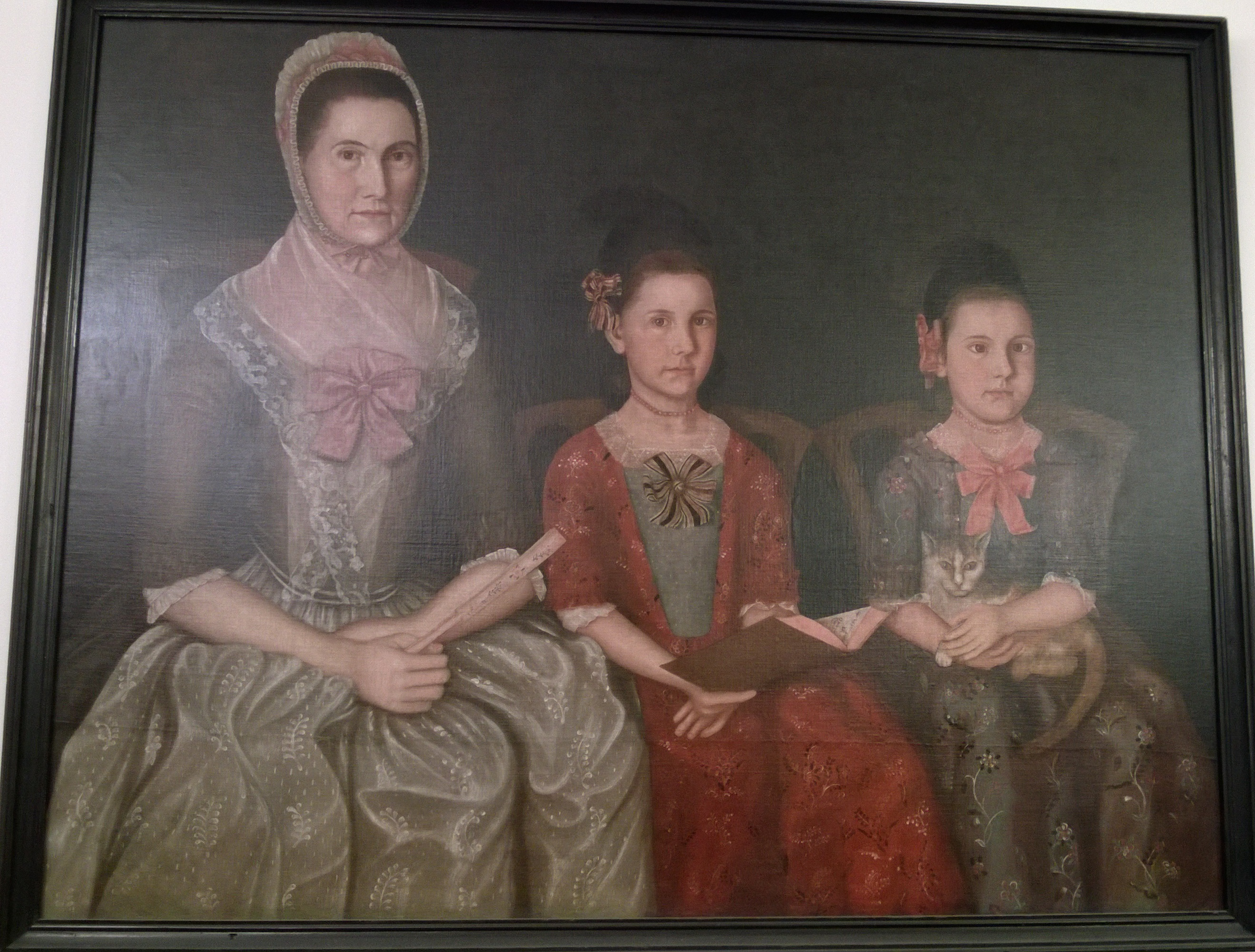 Mrs. Crafts, née Mahitible Chandler, was the sister of the painter and moved with her husband to Craftsbury, Vermont